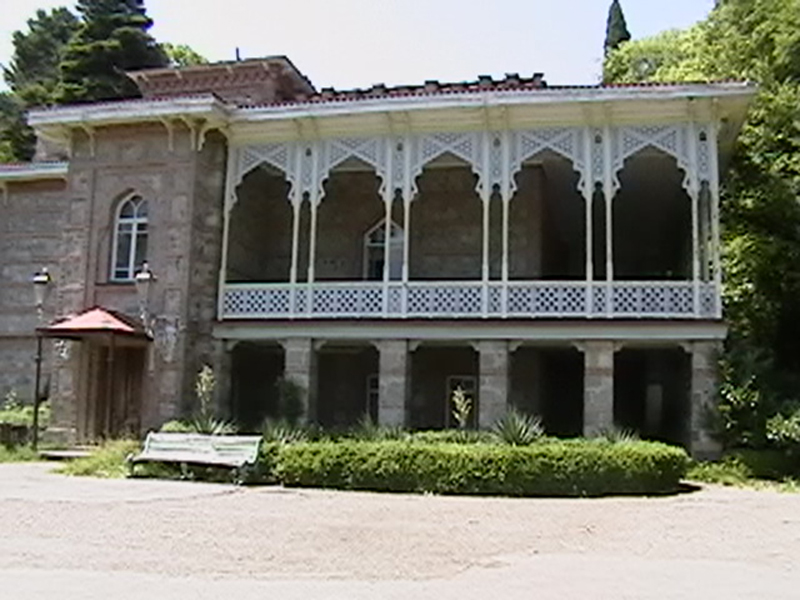 This is my own picture and I donate it to wiki.